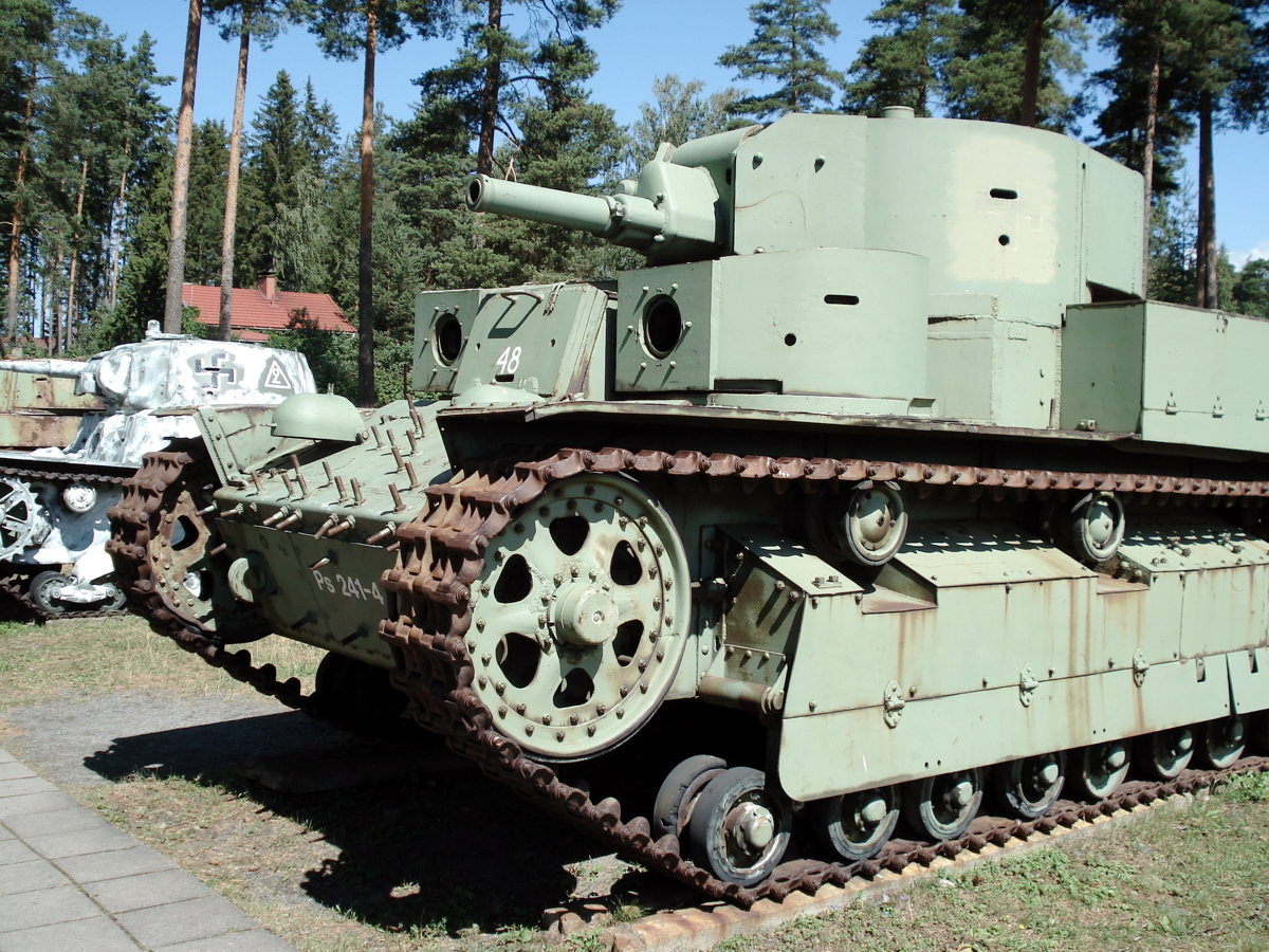 Soviet T-28 tank, displayed in Finnish Tank Museum (Panssarimuseo) in Parola. Photo taken on July 14, 2006. Source: Photo by me, User:Balcer.